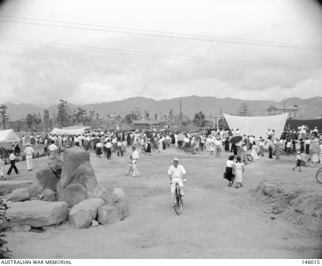 A crowd of Japanese people during the Hiroshima Peace Festival, outside the Memorial Monument where those who died during the atomic bombing of Hiroshima are enshrined.